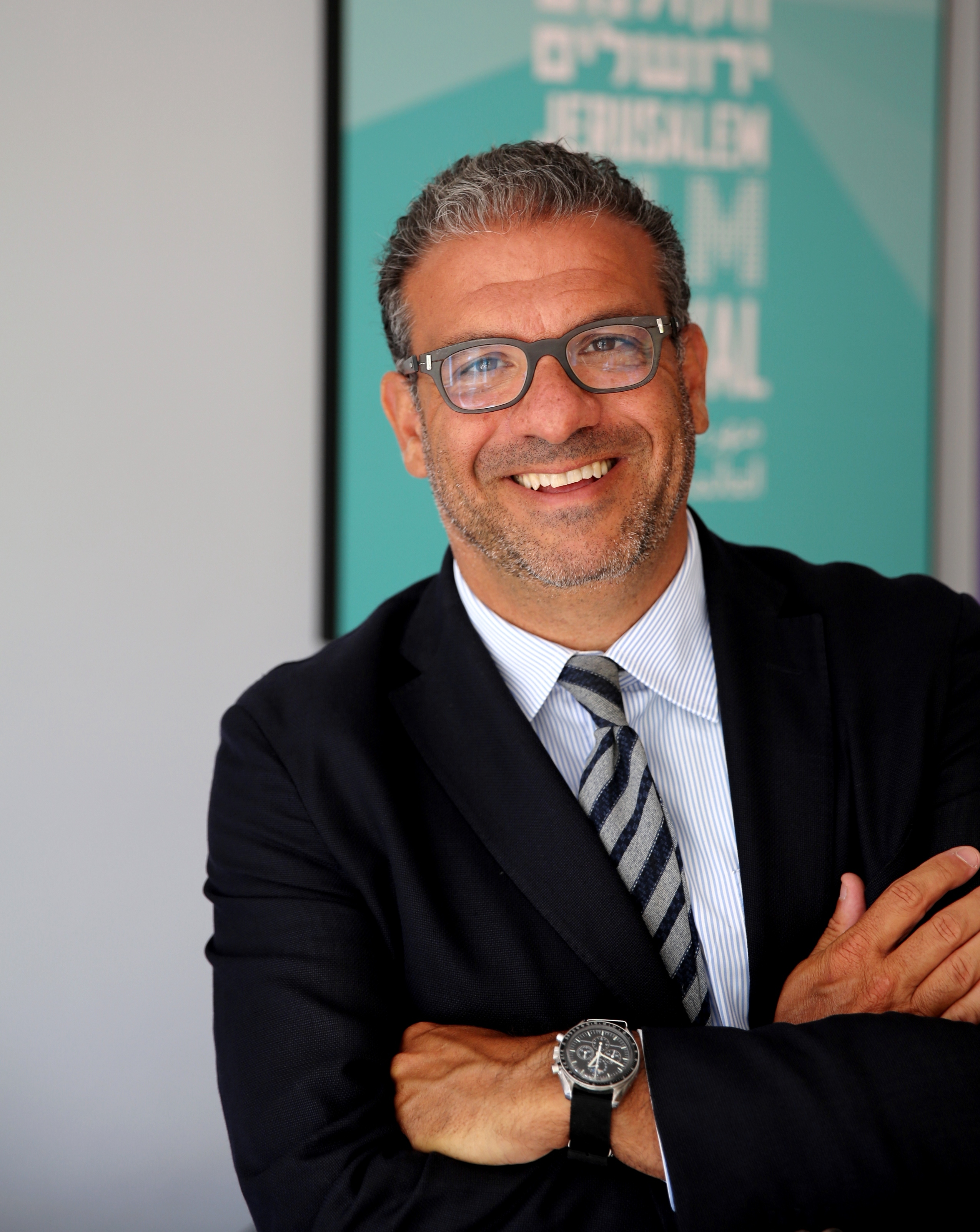 Ruggero Gabbai